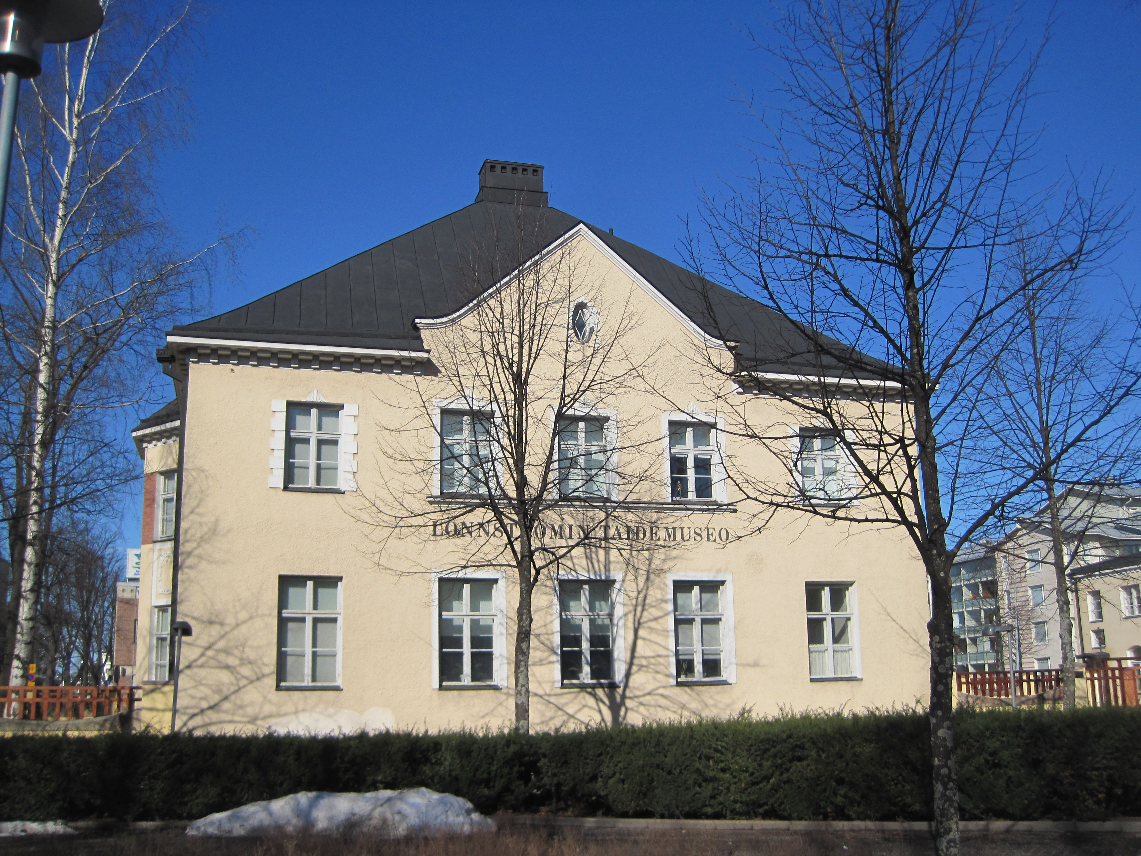 Lönnström art museum, Rauma, Finland check usage